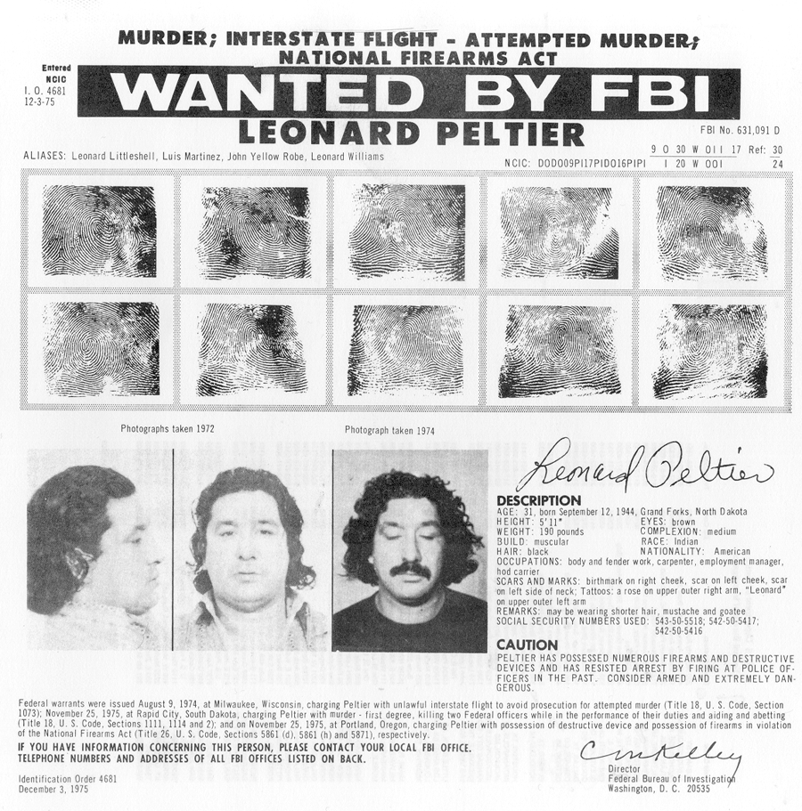 Federal Bureau of bvestigation wanted poster for Leonard Peltier.